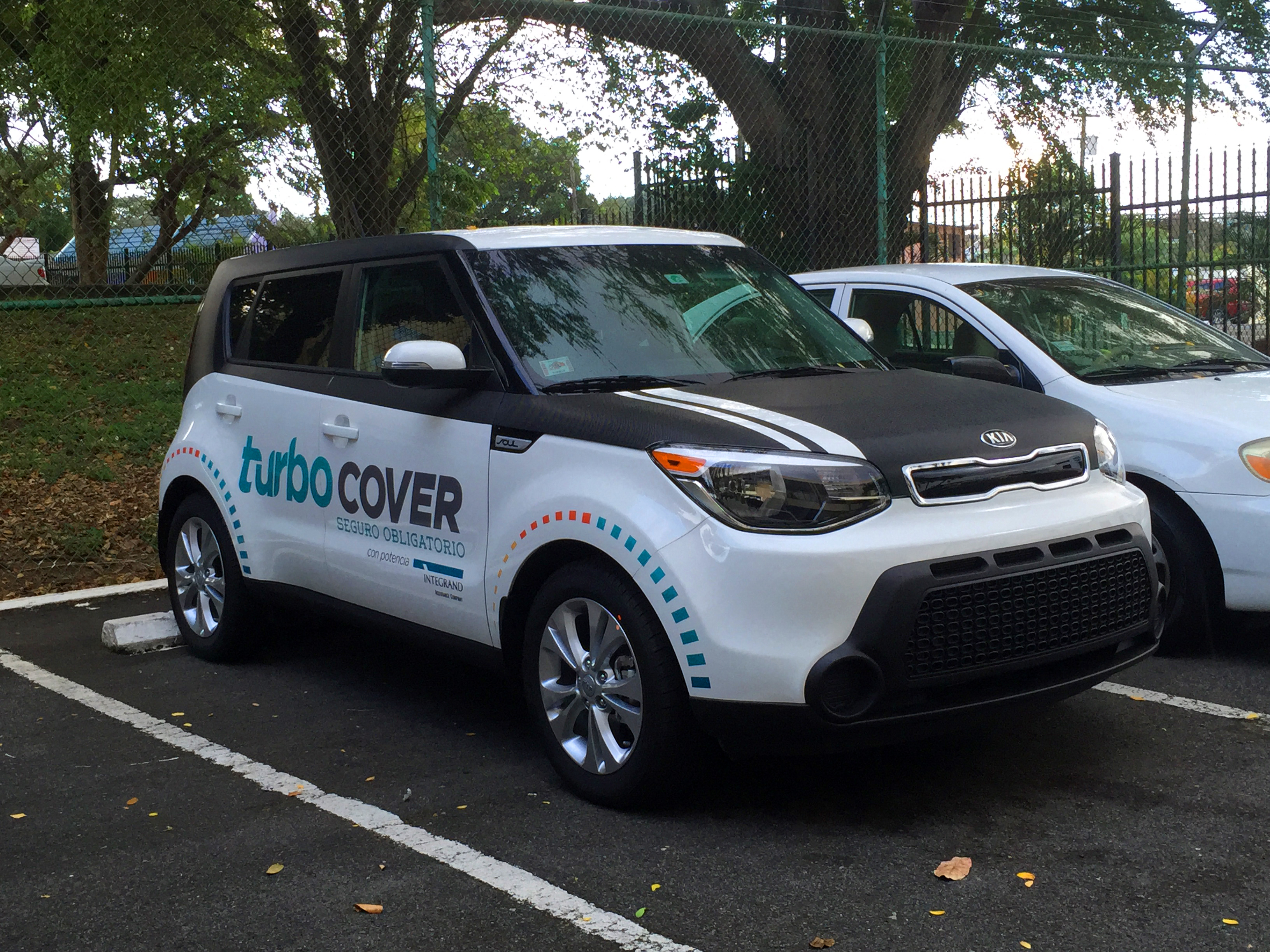 Kia with advertising livery